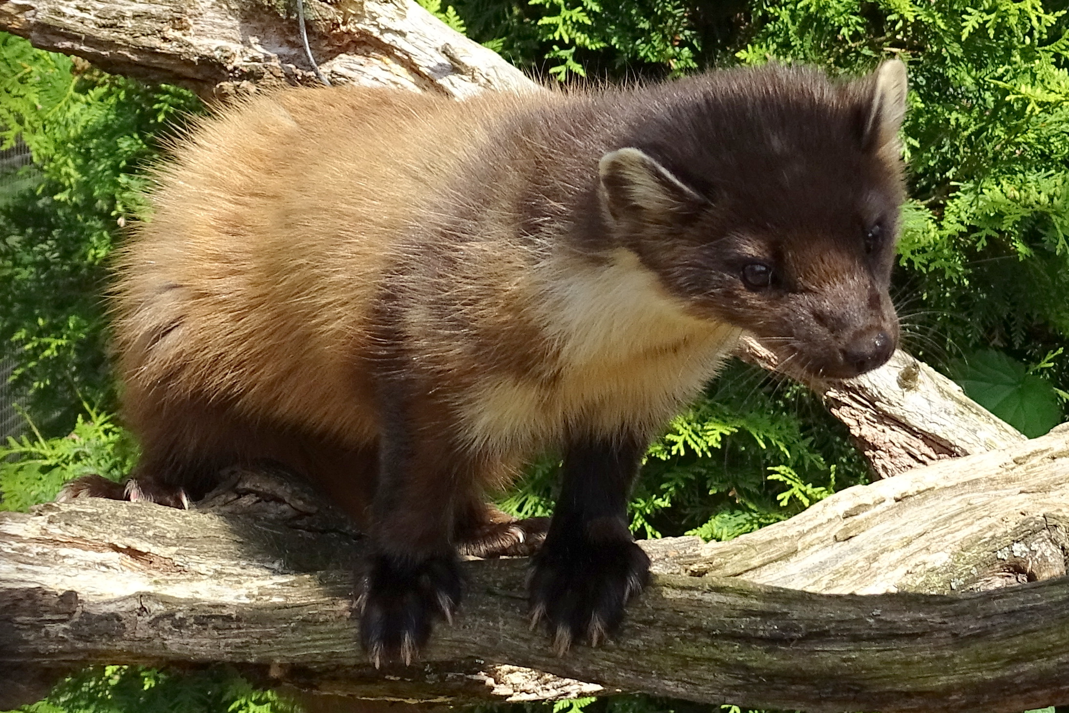 Pine Marten at the British Wildlife Center